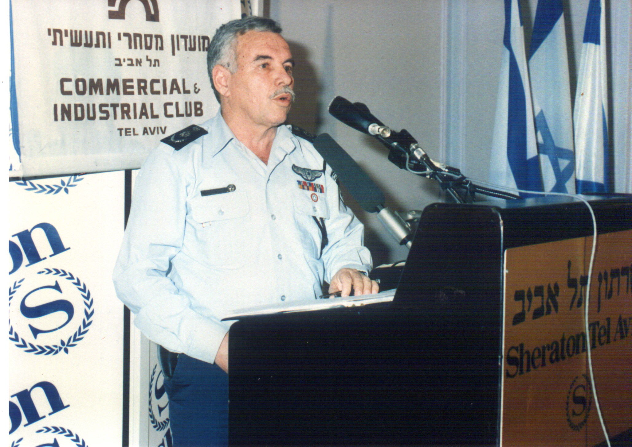 Ci-Club